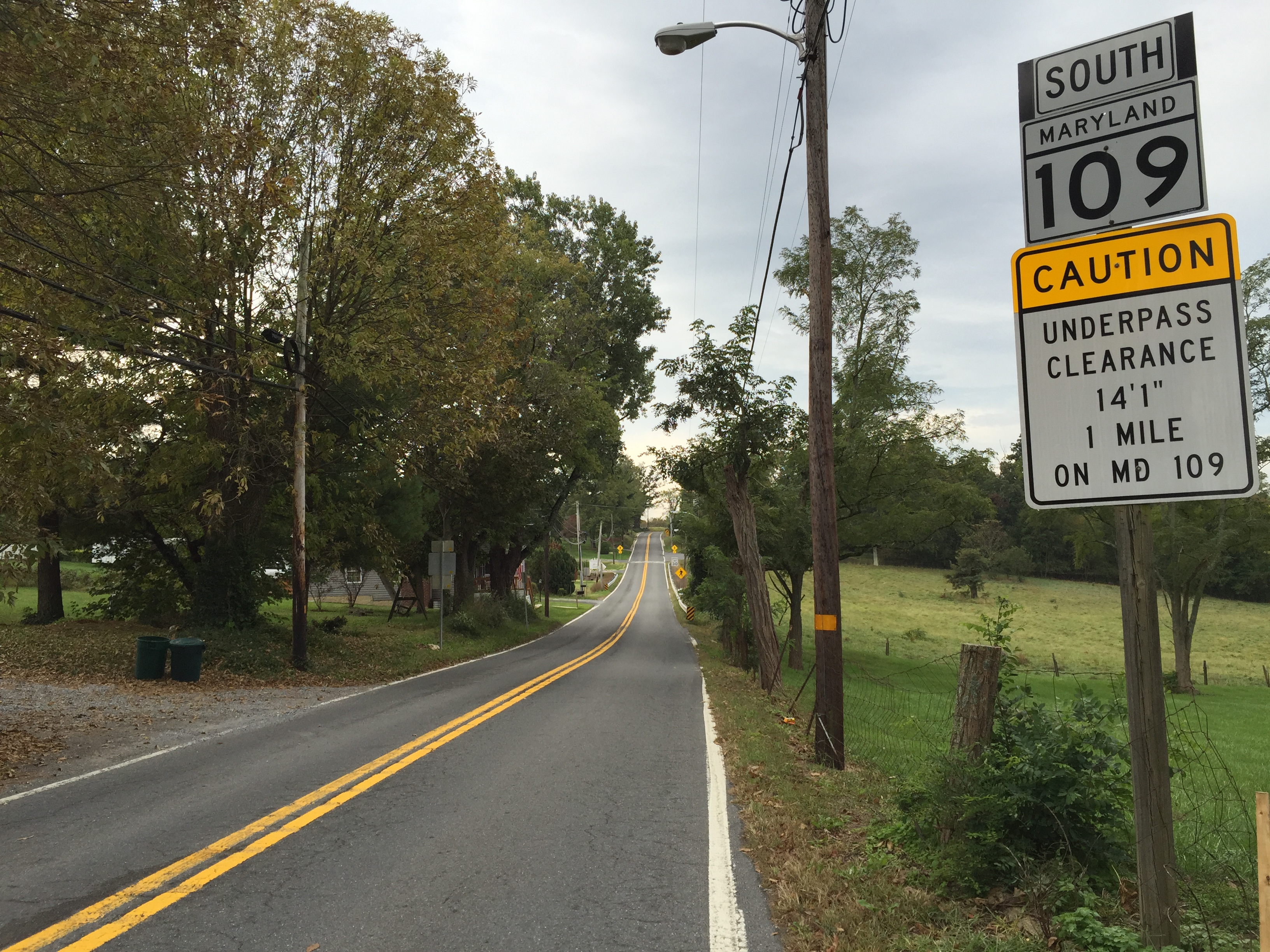 View south along Maryland State Route 109 (Beallsville Road) at Barnesville Road in Barnesville, Montgomery County, Maryland